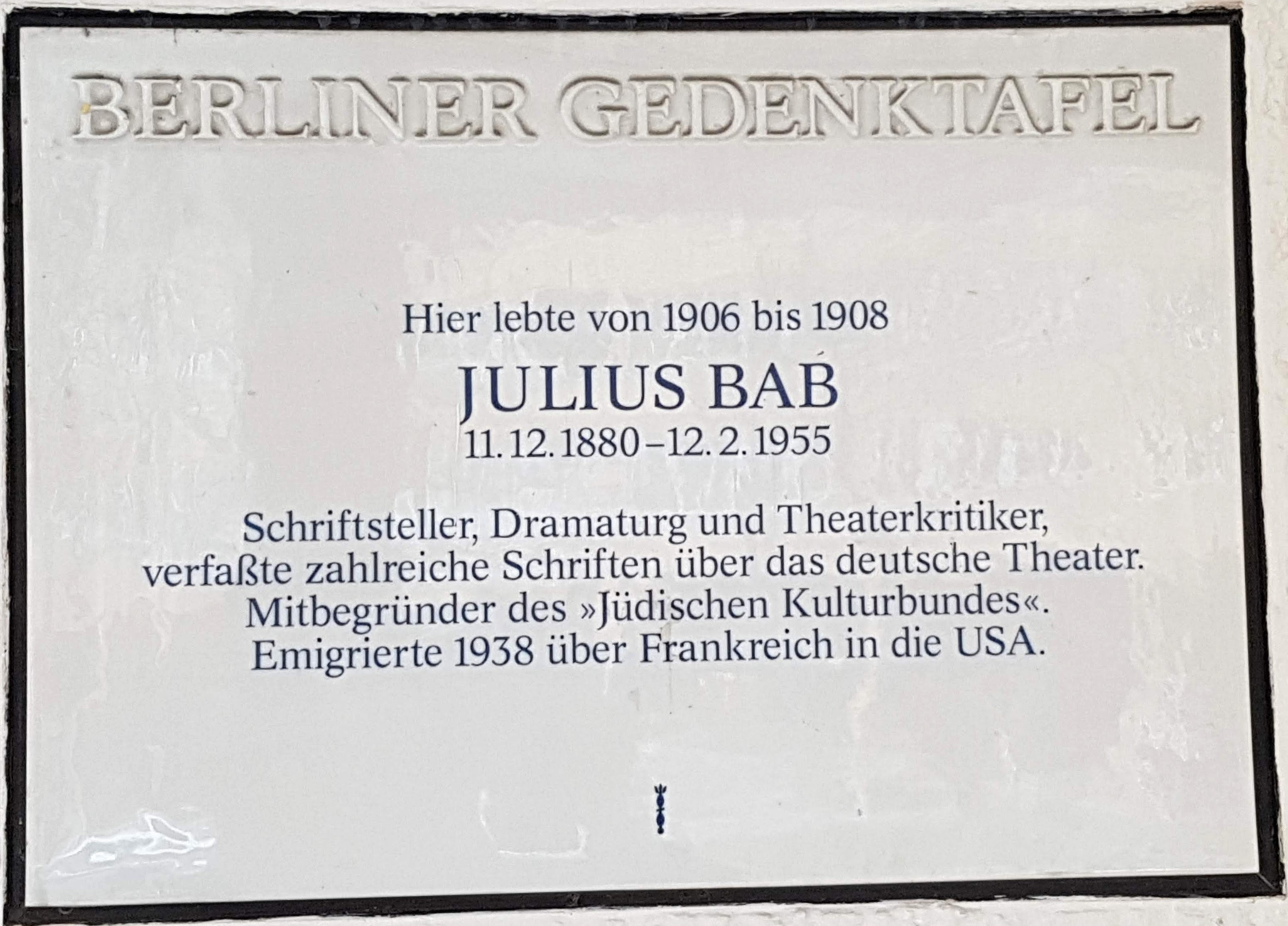 Julis Bab, Berlin memorial plaque at Bundesallee 19 in Berlin Wilmersdorf